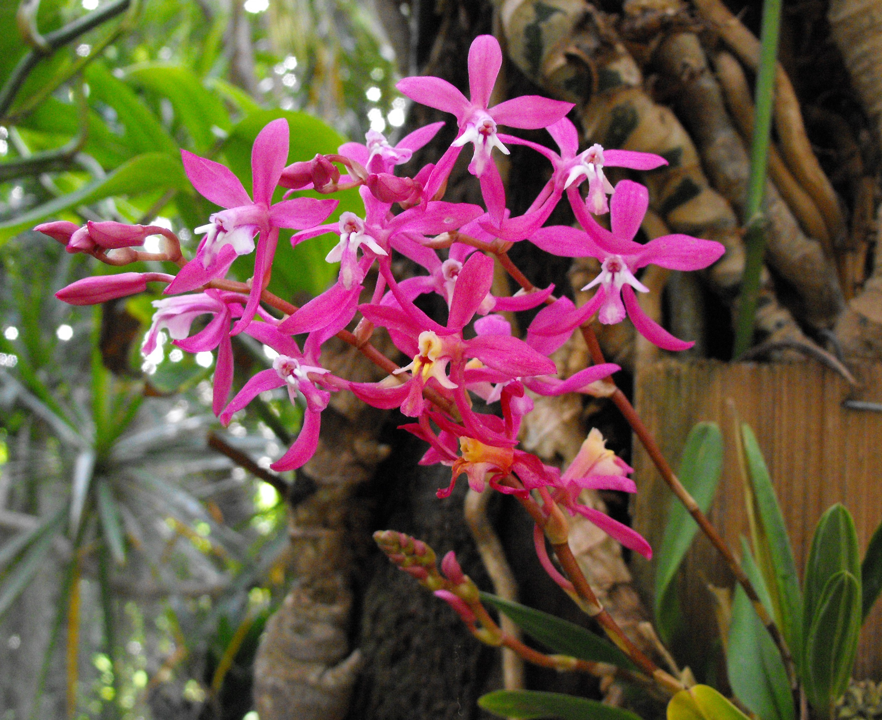 Cochlioda vulcanica in the Botanical Building at Balboa Park, San Diego, California, USA. Identified by sign.